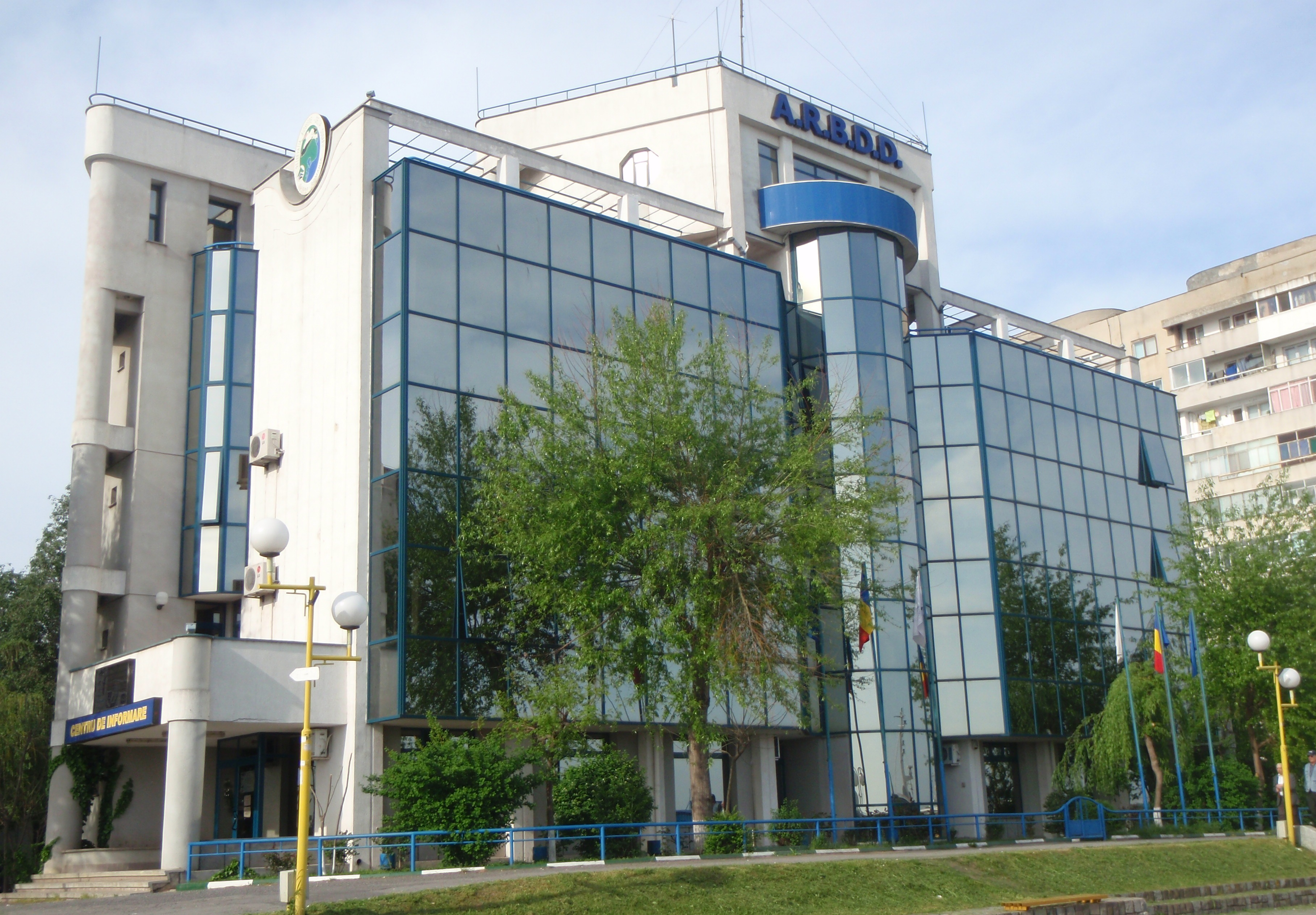 Danube Delta Biosphere Reserve Authority's Head Office in the City of Tulcea, Tulcea County, Romania